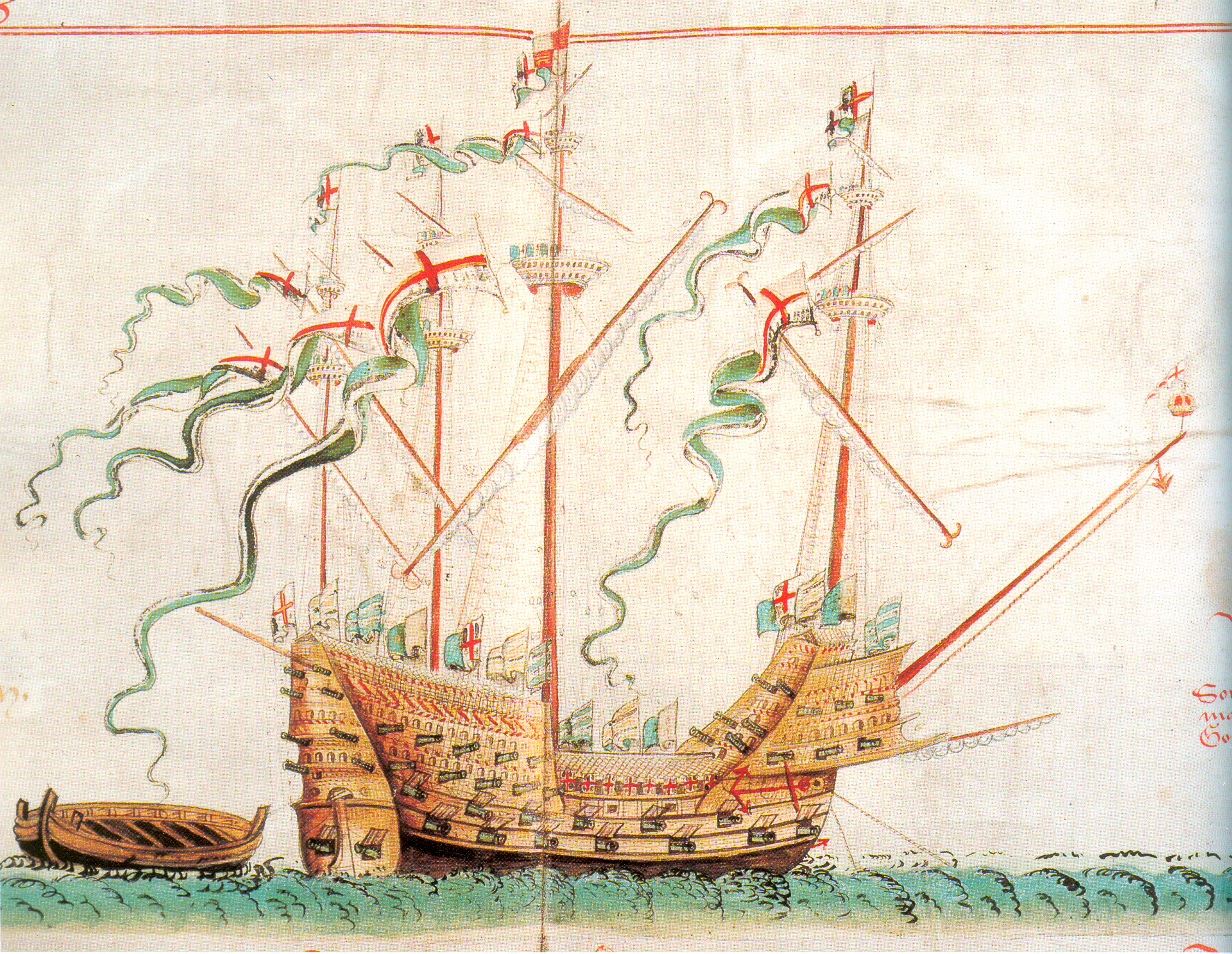 Illustration of the carrack Henry Grace a Dieu, also known as Great Harry.